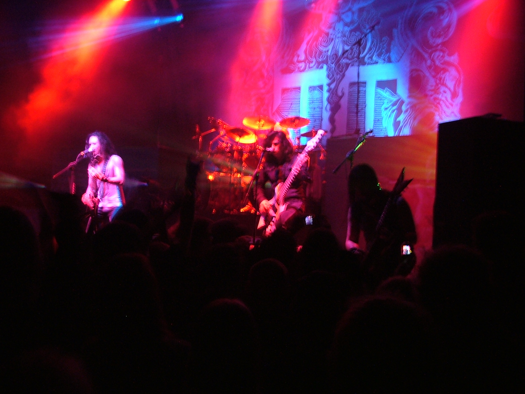 US-american thrash metal band Trivium at a concert in Linz